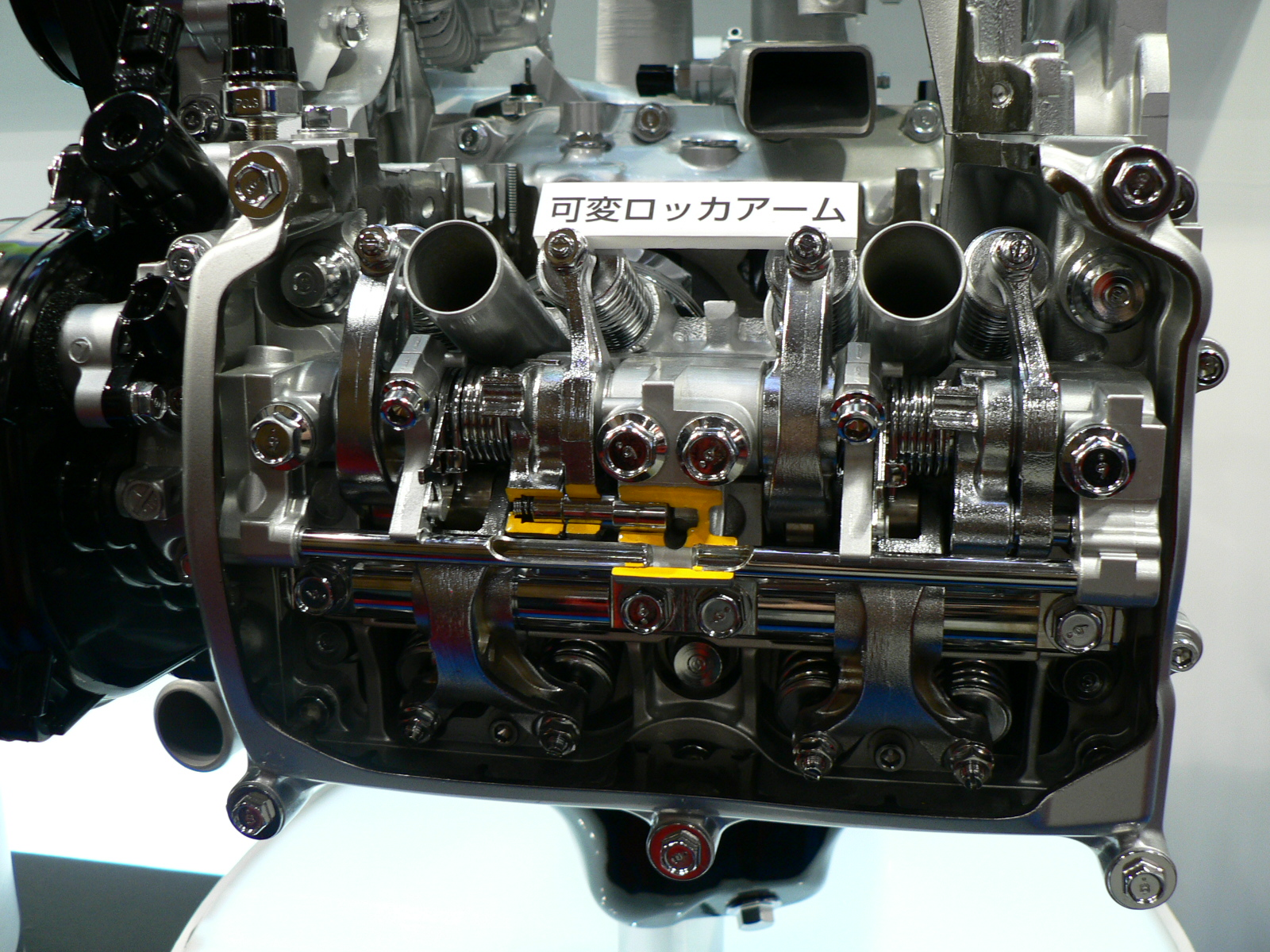 Cutaway model of i-AVLS (SUBARU EJ25 SOHC engine) by OTICS Corporation at Tokyo Motor Show 2007.